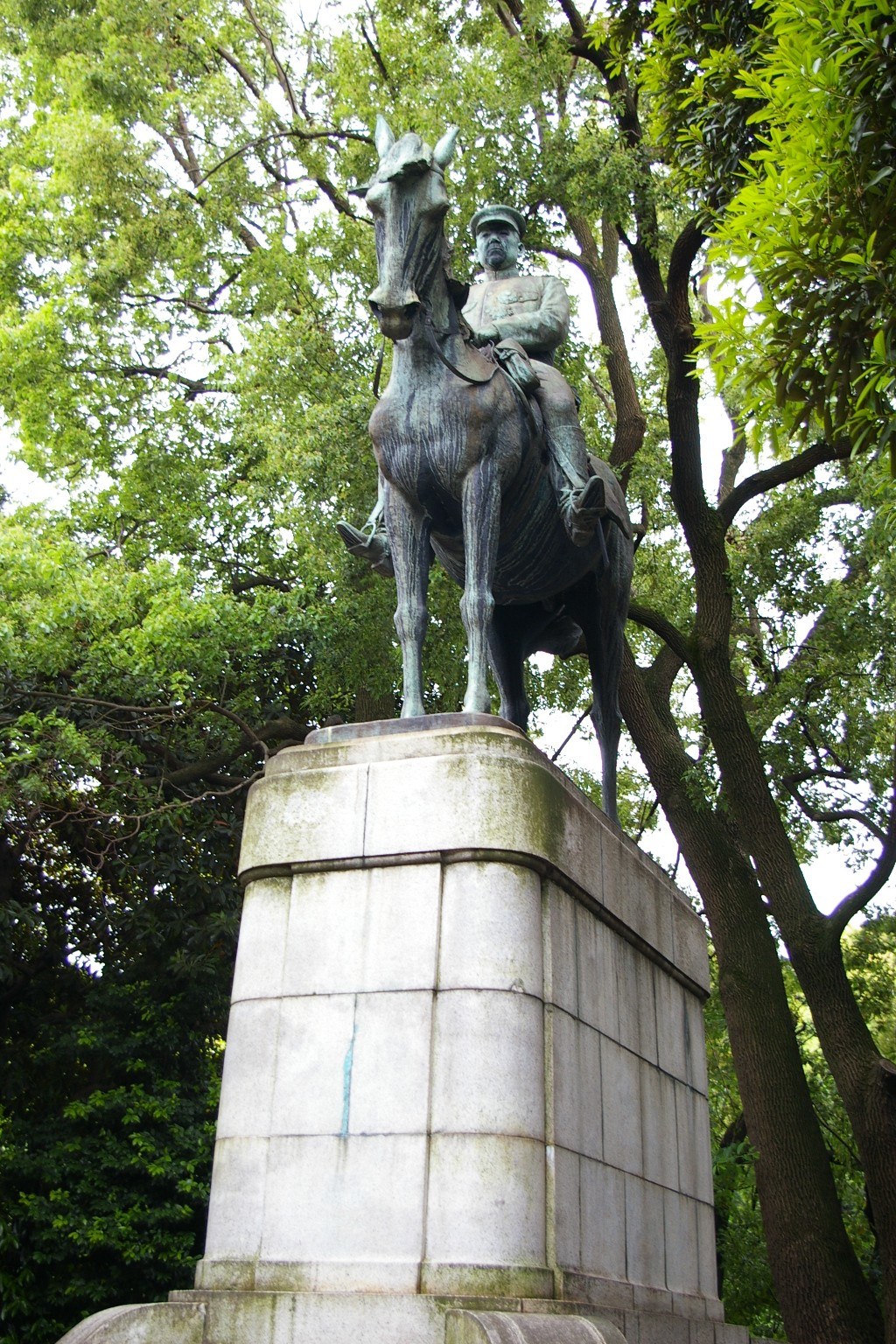 Stature of Field Marshall Iwao Oyama in Kudan, Tokyo.